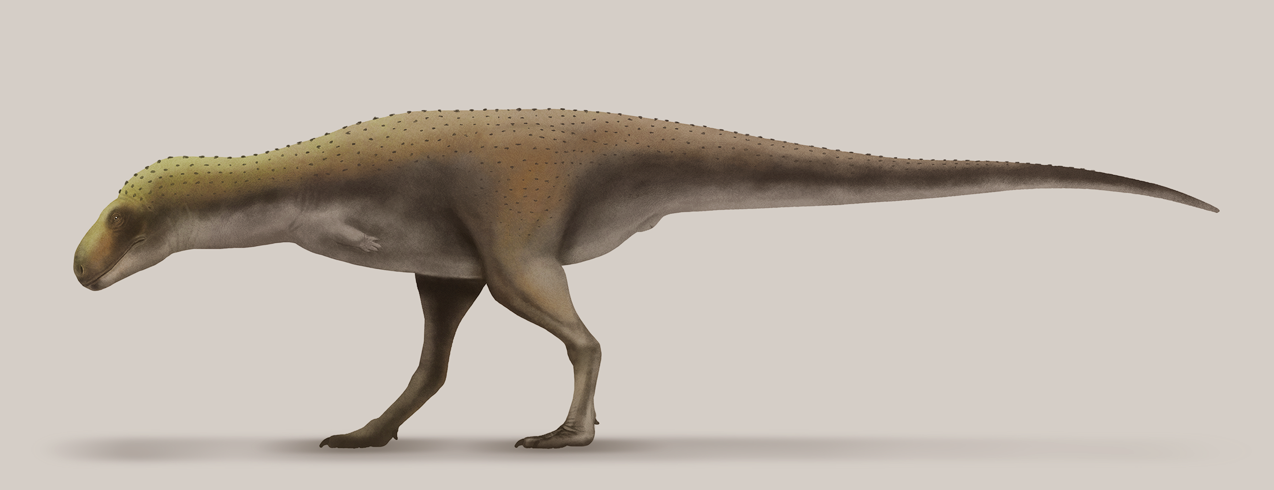 Life restoration of Rahiolisaurus gujaratensis